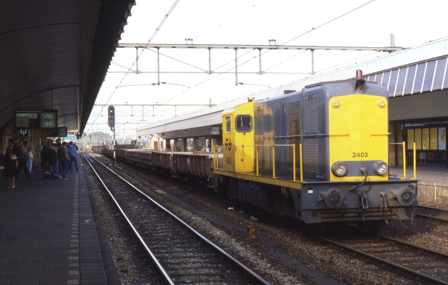 Class 2400 no. 2403 on a ballast train at Rotterdam CS, 30 August 1986.